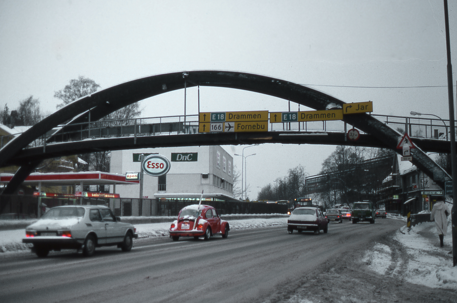 Lysaker, Norway, in 1981. E18 thoroughfare.